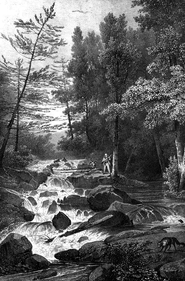 Lower Falls, Montgomery Place; lithograph on paper